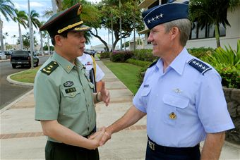 Lt. Gen. Cai Yingting, Deputy Chief of the General Staff of the Chinese People's Liberation Army, is greeted by Gen. Herbert J. “Hawk” Carlisle, Pacific Air Forces commander, at PACAF headquarters, Joint Base Pearl Harbor-Hickam, Hawaii, Aug. 27, 2012. Cai visited Hawaii to discuss issues of mutual interest with senior military and defense leaders.